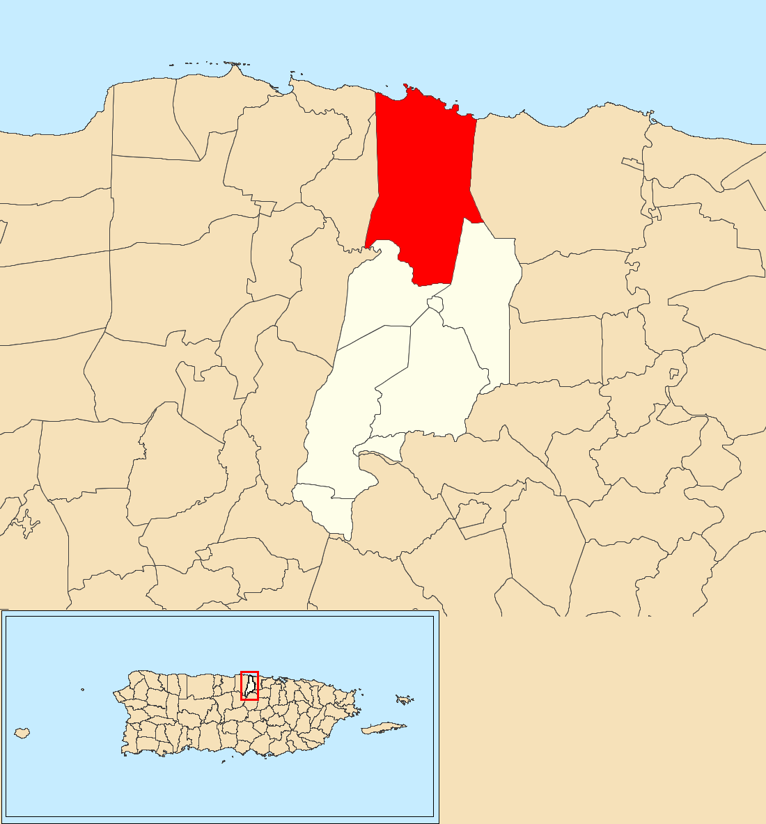 Sabana, Vega Alta, Puerto Rico locator map